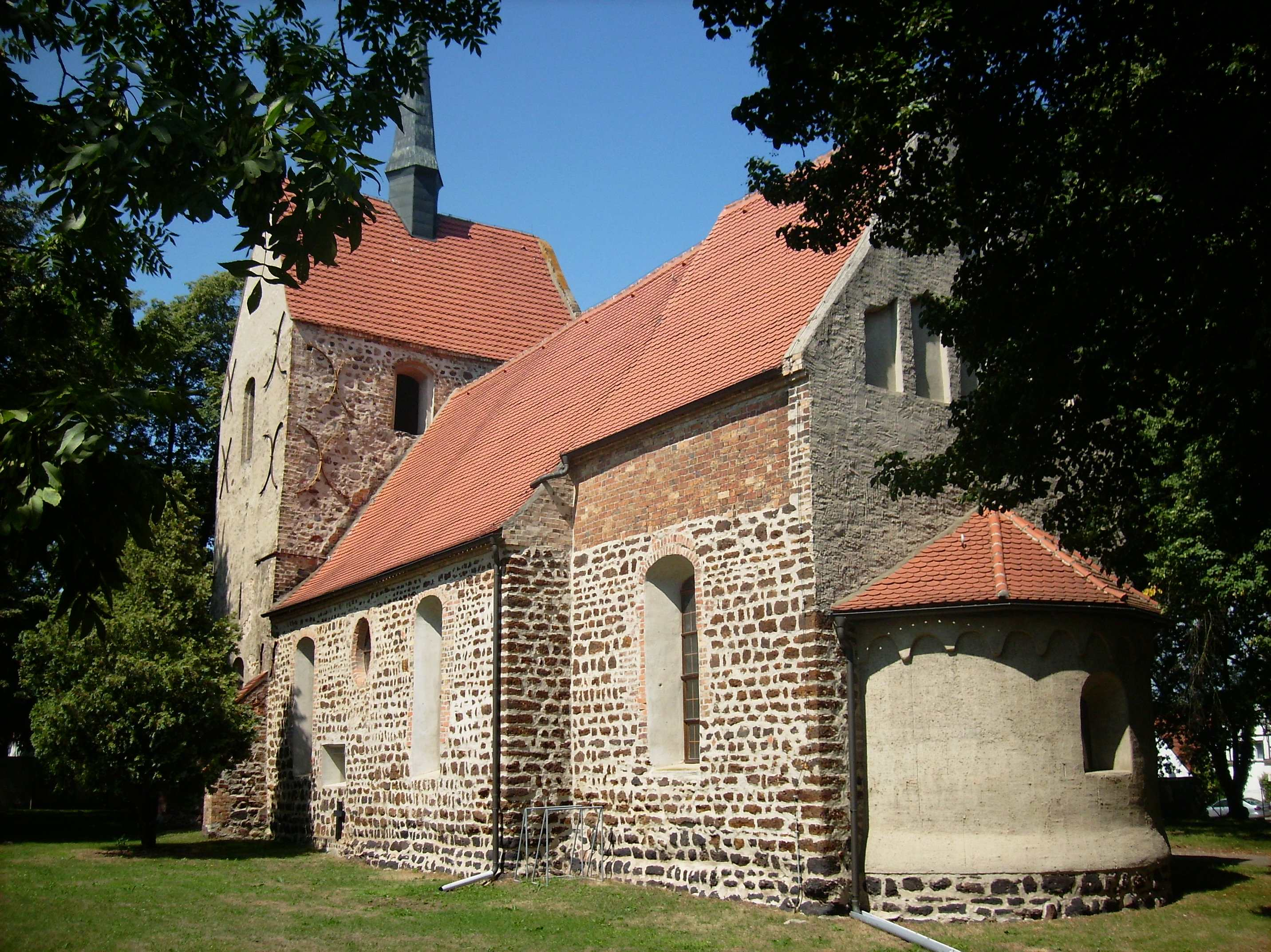 Romanesque church in Rösa (Muldestausee, Anhalt-Bitterfeld district, Saxony-Anhalt)